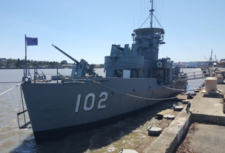 Picture of the USS LCS (L) (3) 102, a "Mighty Midget" located at Mare Island, CA